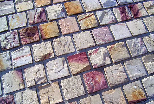 Federation square paving tiles